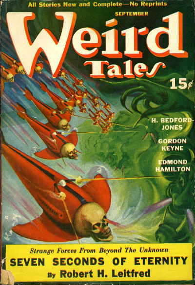 Cover of the pulp magazine Weird Tales (September 1940, vol. 35, no. 5) featuring Seven Seconds of Eternity by Robert H. Leitfred. Cover art by Ray Quigley.